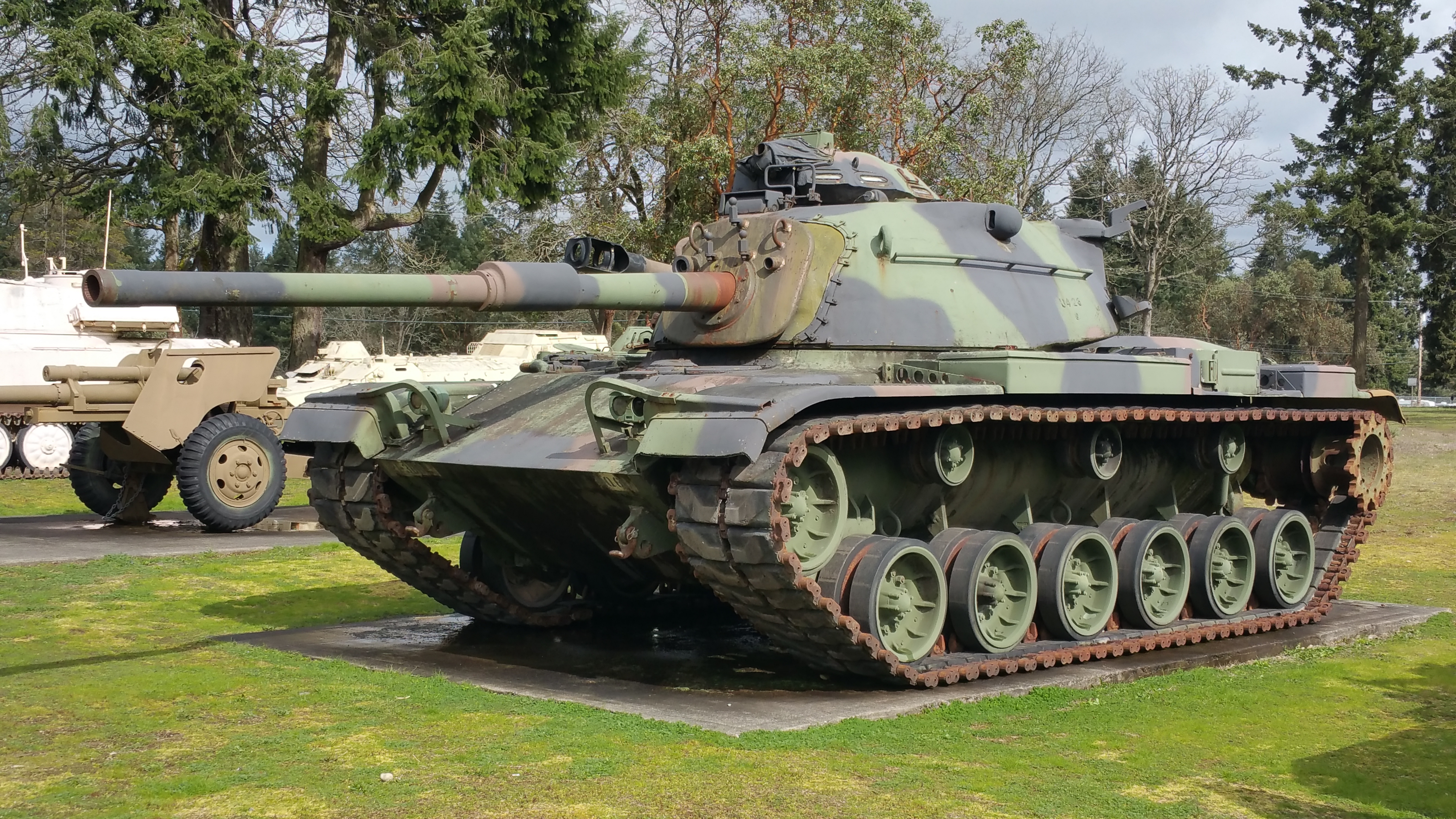 M60 Patton Tank Fort Lewis Military Museum